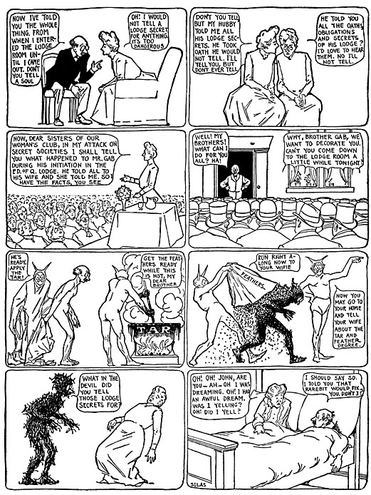 Dream of a Rarebit Fiend (1 February 1905)